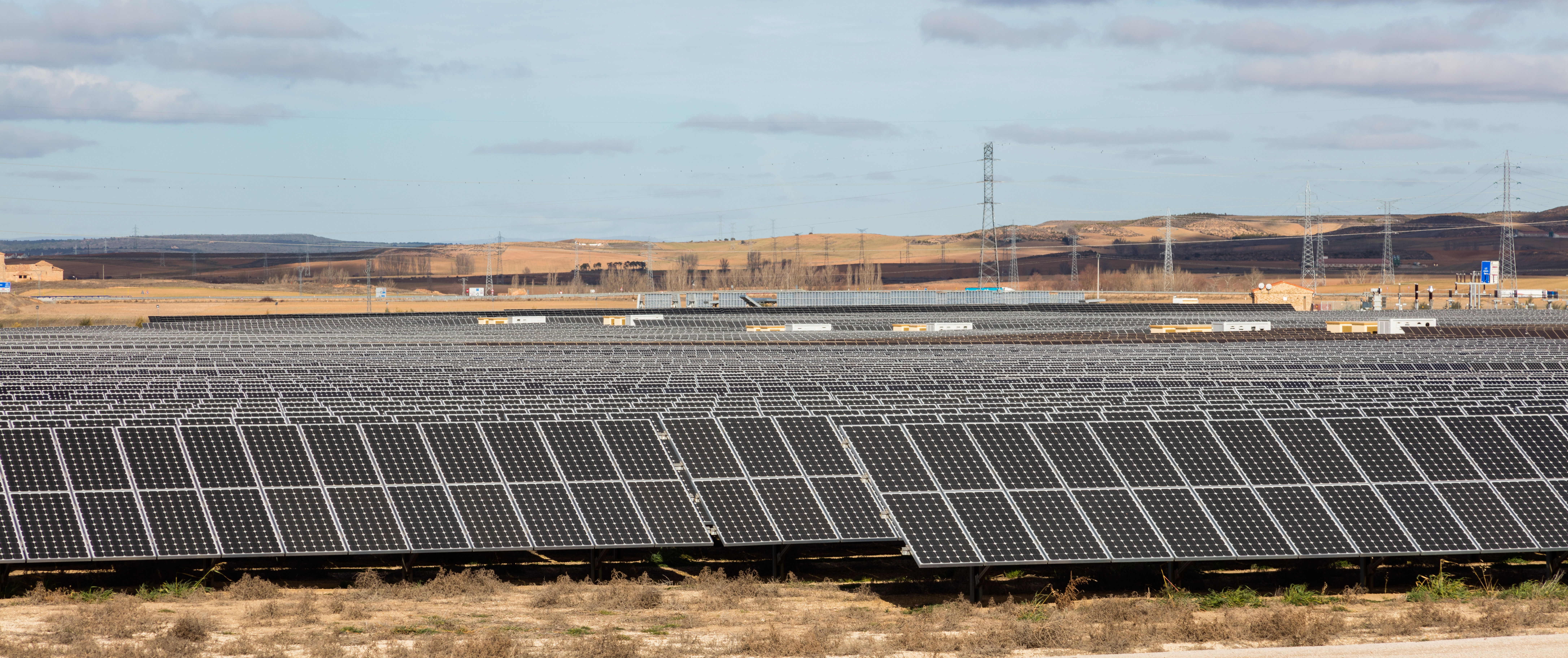 Photovoltaic power station in Frechlla de Almazán, Soria, Spain